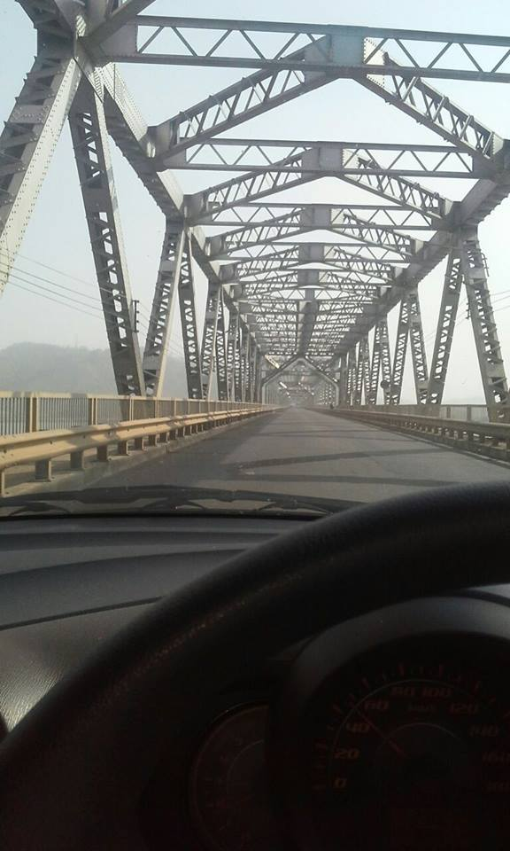 Address: (Former NH 31B), Jogighopa, Assam 783382. officialy named as Naranarayan Setu, this bridge connects Jogighopa, a town of Bongaigaon District on the north with Pancharatna, a town of Goalpara District on the south. After renumbering of NHs, it is located on route of NH-17.